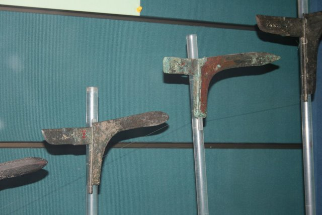 Bronze ge weapons from the Chinese Warring States Period